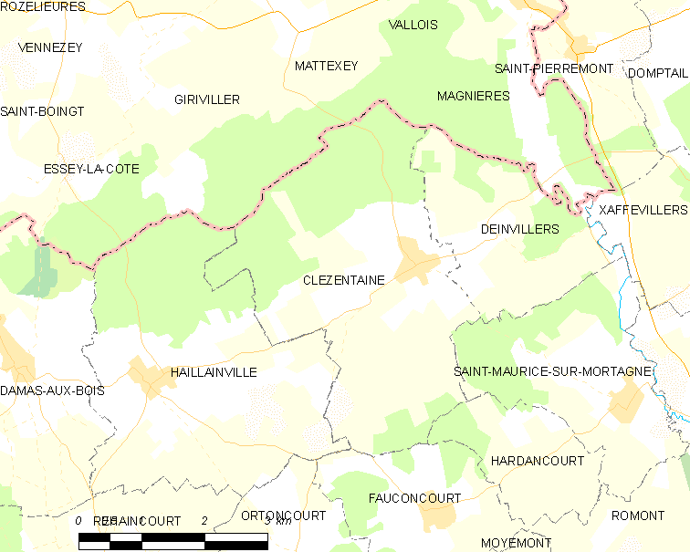 Map of French municipality Clézentaine